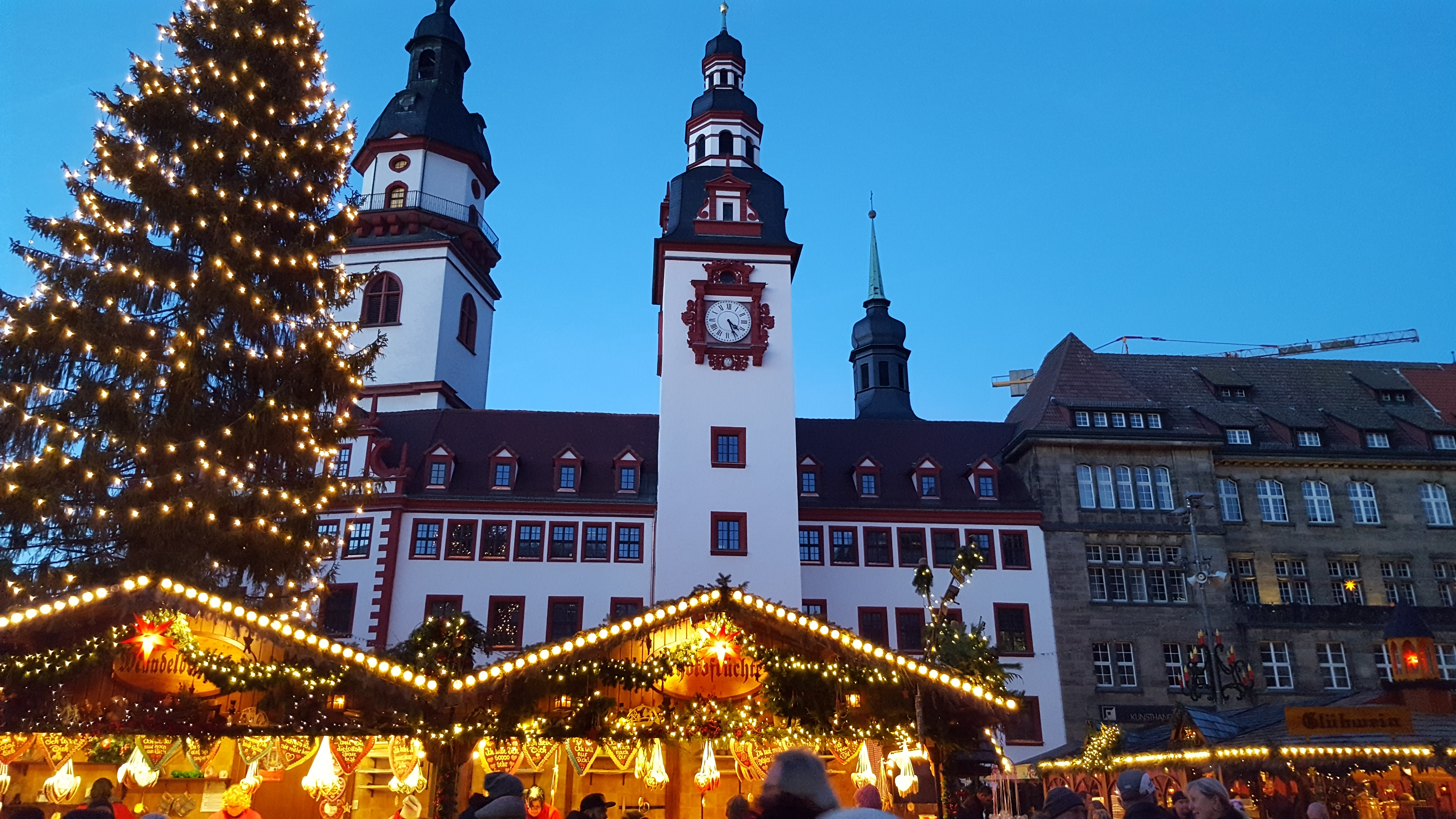 Christmas market in Chemnitz, Germany in 2016